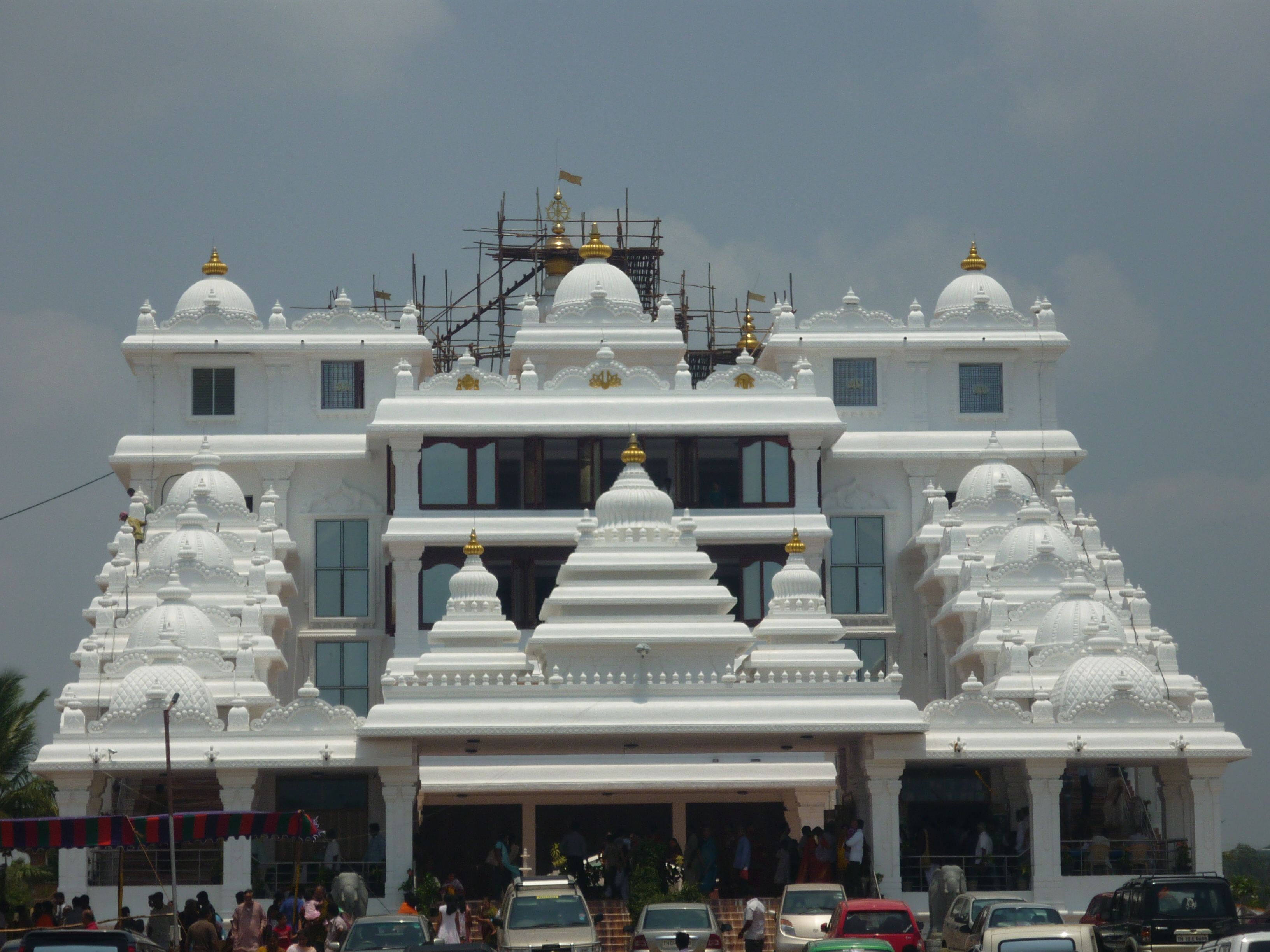 ISKCON Temple Chennai, Main facade, taken on 1-May-2012